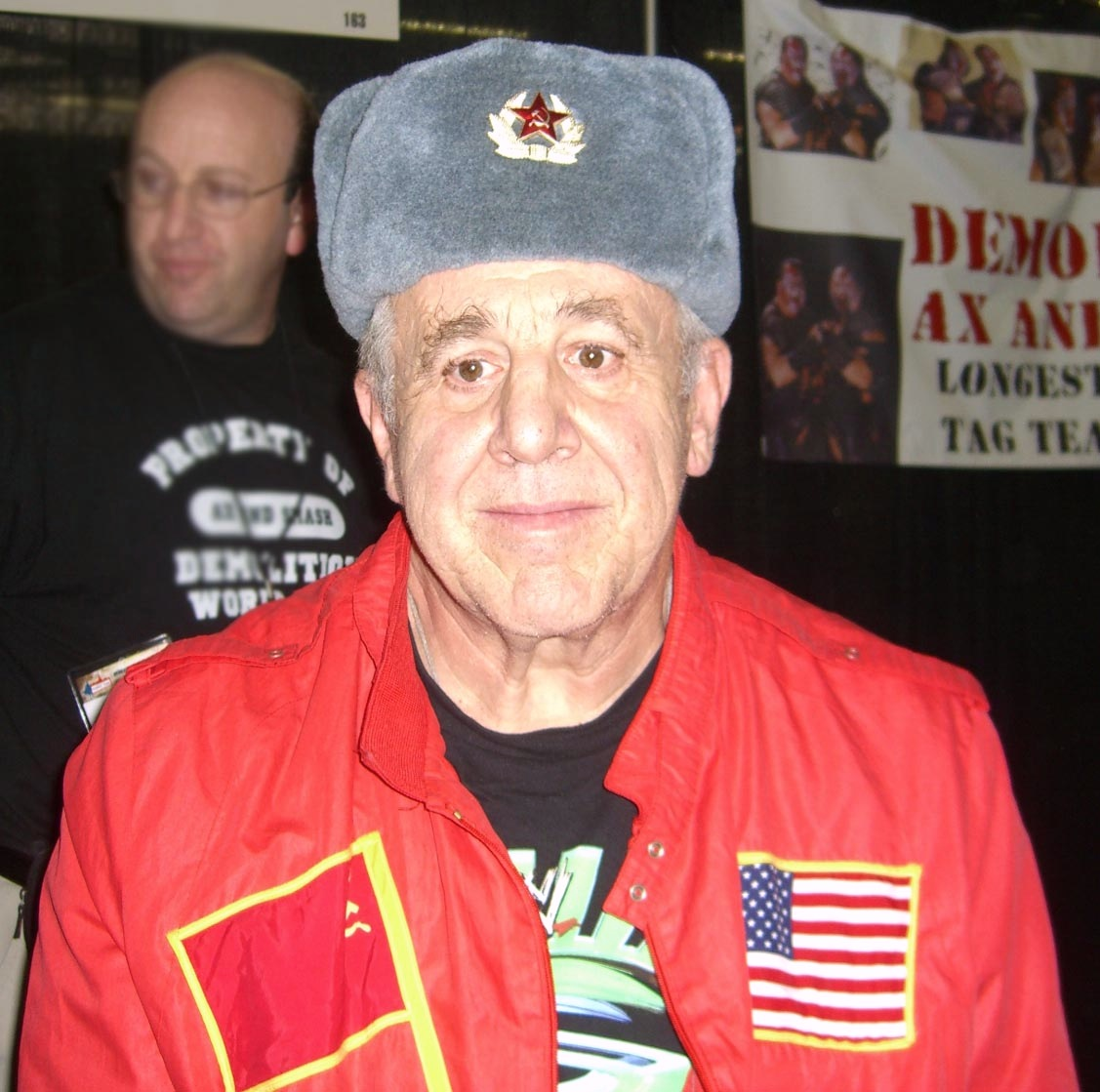 Professional wrestler Nikolai Volkoff at the Big Apple Convention in Manhattan. Photographed by Luigi Novi. This photo is not in the public domain. It may, however, be used, modified and published for any purpose, only if an easily visible credit to the photographer is placed near the photo in each instance in which it is used. (See licensing information below.) Publication of this photo without this proper attribution constitutes copyright infringement. For more information on my photos, you can contact me here.